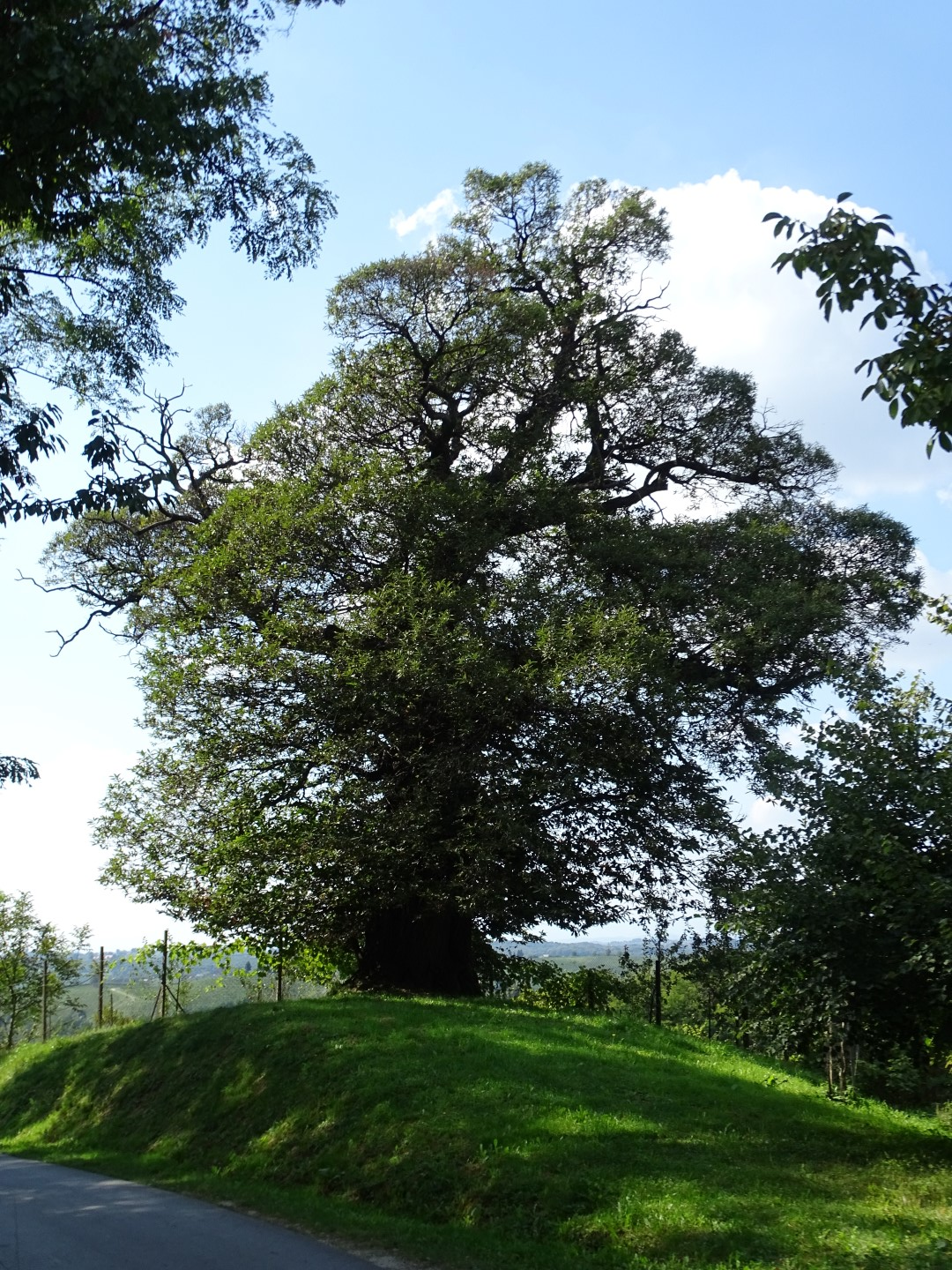 Jeruzalem - Church of Our Lady of Sorrows - Turkis chestnuts